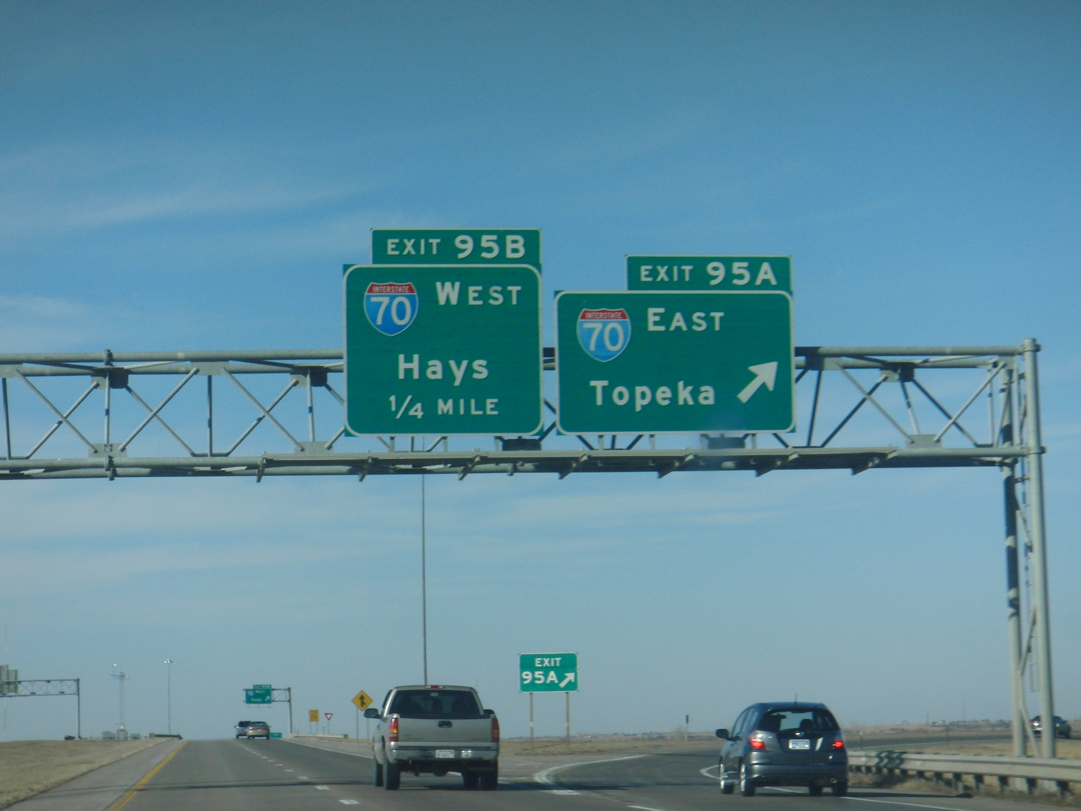 Interstate 135's north end is at this interchange with I-70. US-81 continues northward from here.